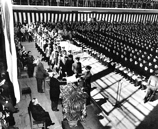 1st NDA(National Defense Academy of Japan) graduation and commissioning ceremony